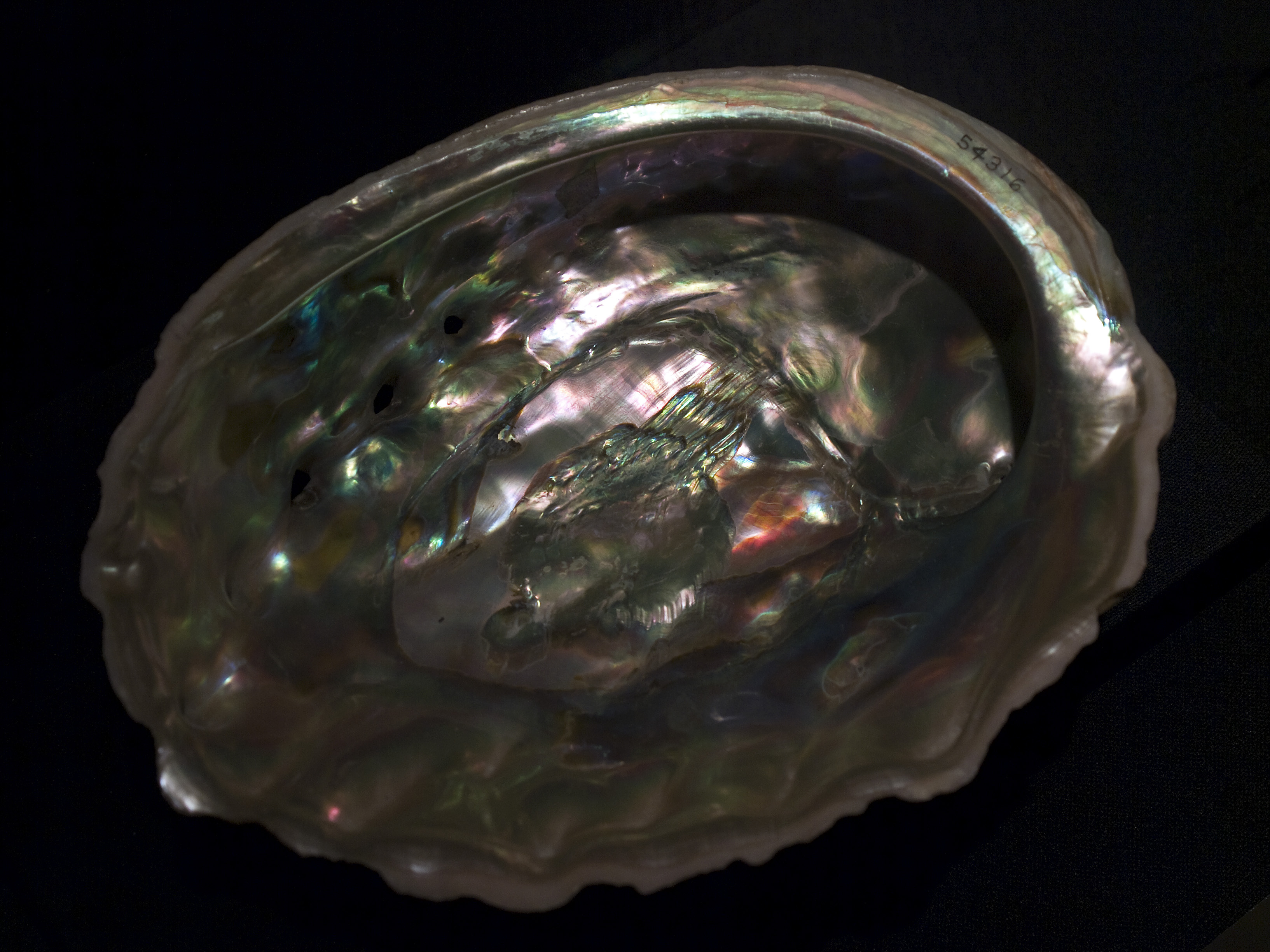 Haliotis rufescens (Swainson, 1822) California, USA HMNS 54316 Wikipedia Loves Art at the Houston Museum of Natural Science This photo of item # 54316 at the Houston Museum of Natural Science was contributed under the team name "Assignment_Houston_One" as part of the Wikipedia Loves Art project in February 2009. Houston Museum of Natural Science The original photograph on Flickr was taken by skarsol—please add a comment to the original Flickr page whenever a use has been made on Wikipedia or another project. Project galleries on Flickr: this institution, this team